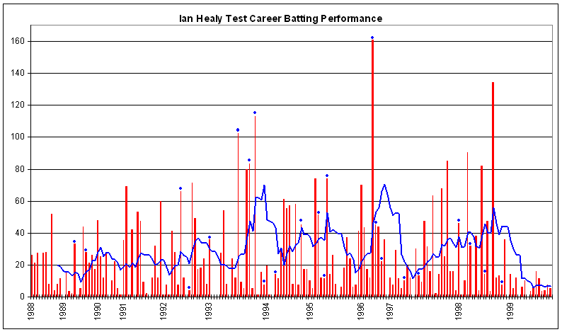 Test batting chart of Ian Healy. Red columns are the runs in the innings. Blue dots indicate not outs. Blue line is average in the last ten innings. Thanks to Raven4x4x for providing the template.